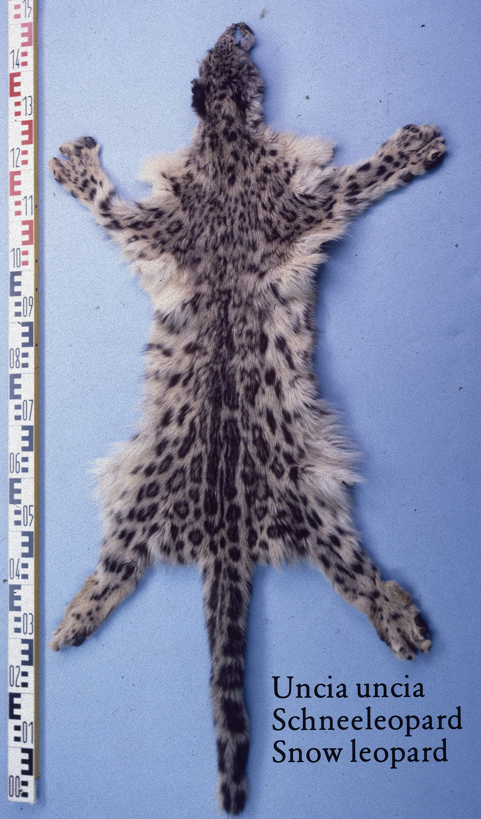 Snow leopard skin (Uncia uncia). Fur skin collection, Bundes-Pelzfachschule, Frankfurt/Main, Germany